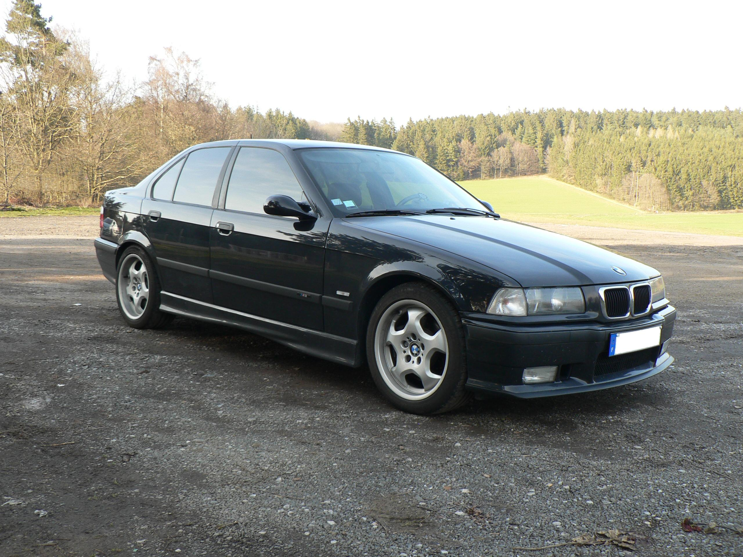 Black BMW M3